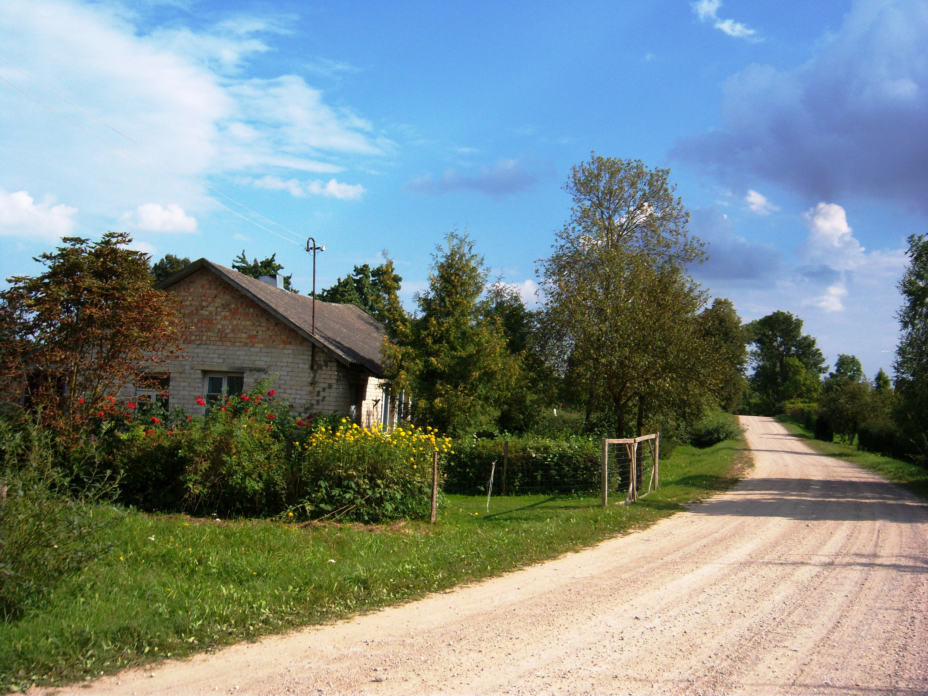 Krivonys, Kaišiadorys District, Lithuania